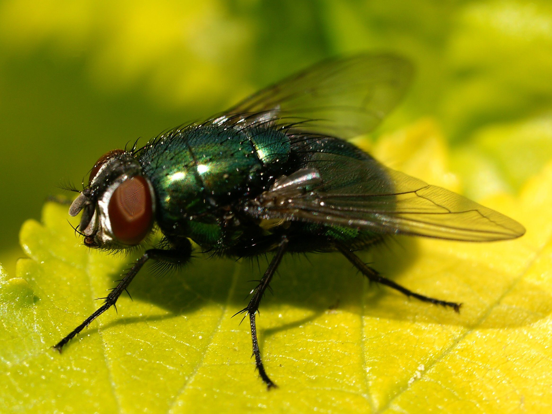 Fly of the Calliphoridae family - Lucilia sericata (female)